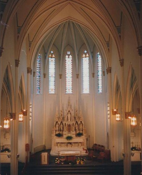 Interior of the Church of All Saints, Iowa. Photo is a scan of the original.